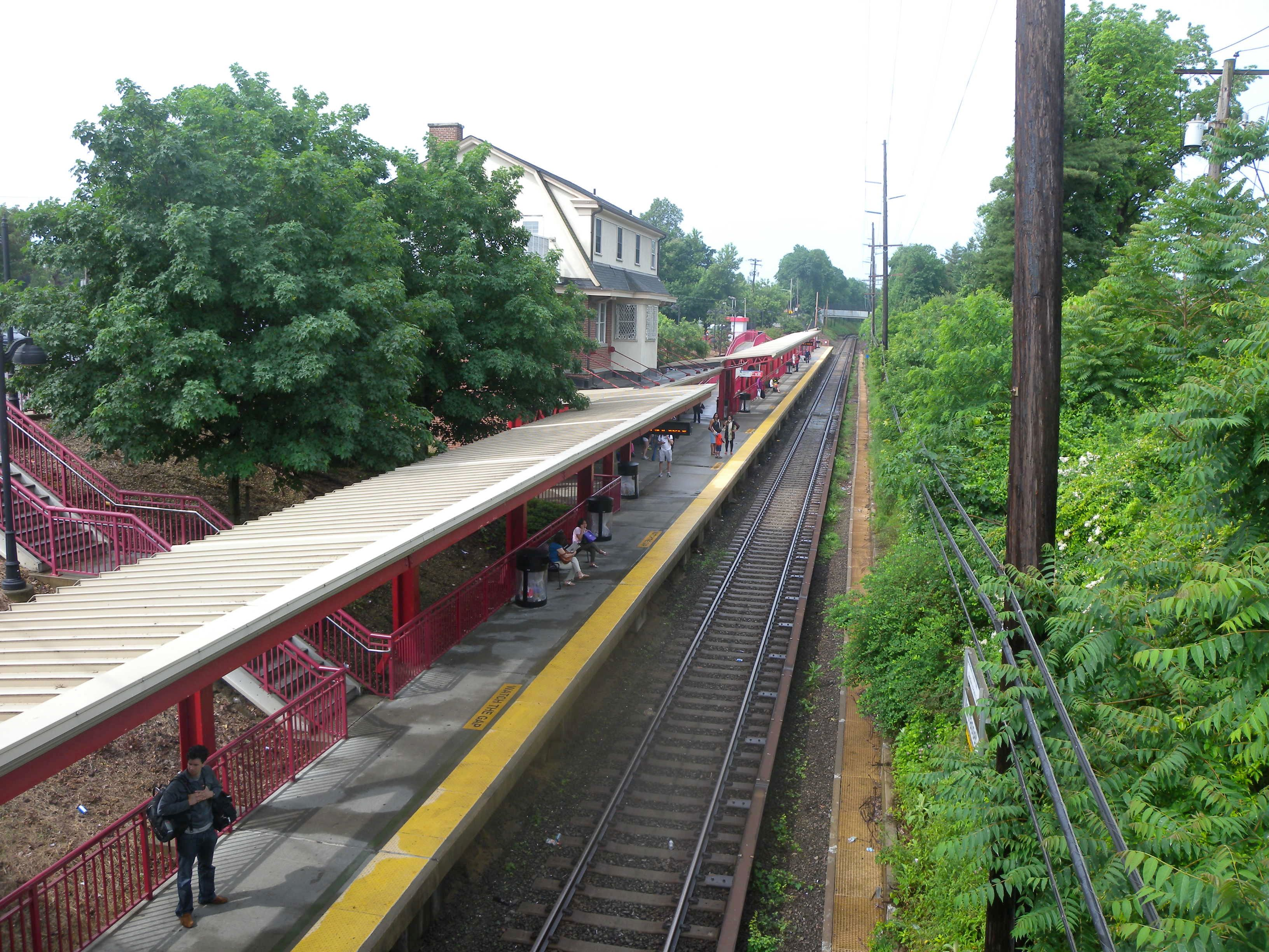 Looking southwest from Plandome Road overpass at LIRR station as morning rain ends.